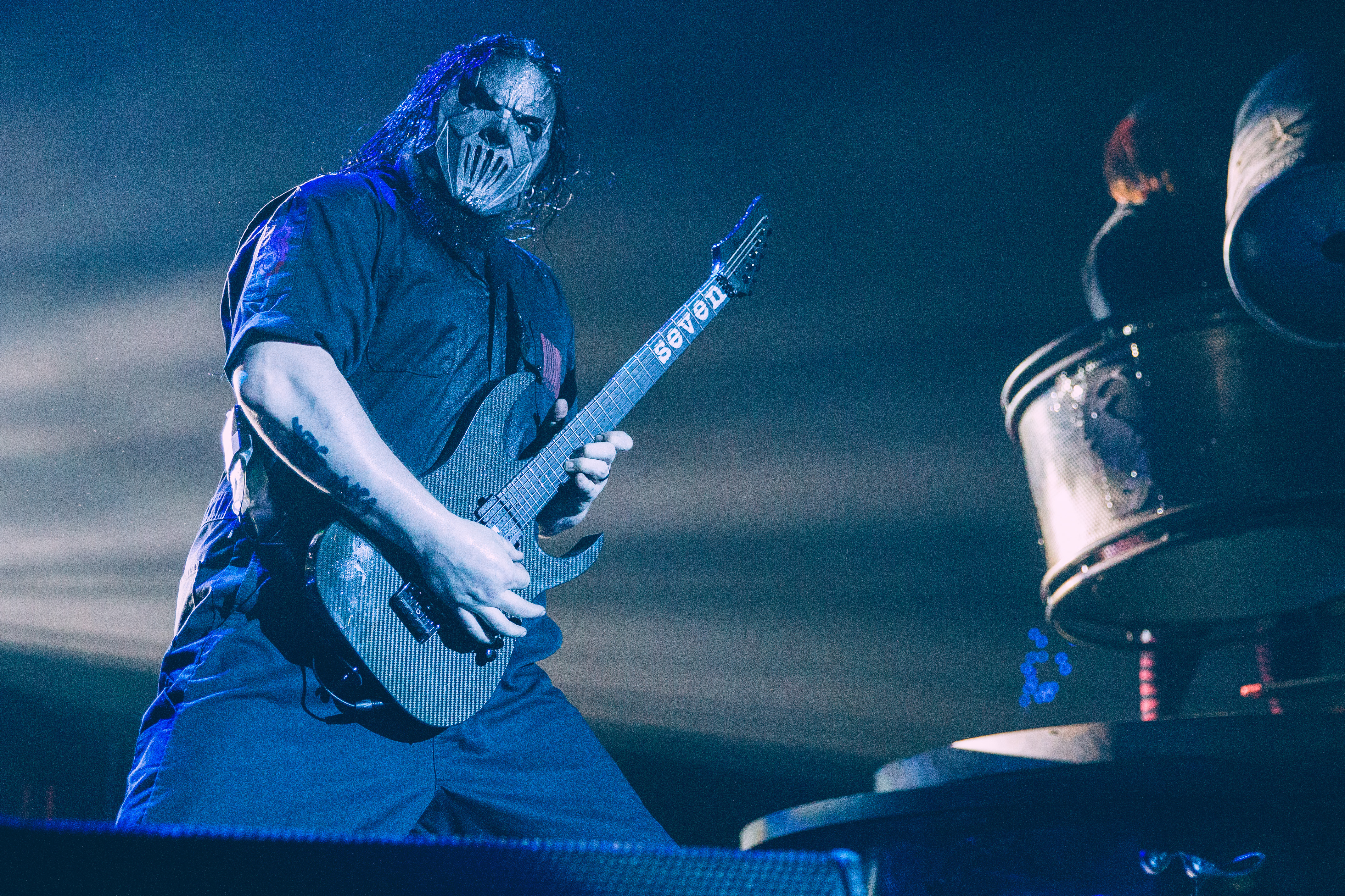 Slipknot on The Grey Chapter Tour (2016), ISS Dome, Düsseldorf (DEU) /// leokreissig.de for Wikimedia Commons